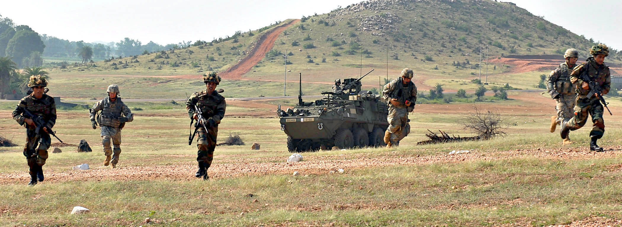 CAMP BUNDELA, India (Oct. 15, 2009) - Indian Army Soldiers assigned to the 94th Armored Brigade along with U.S. Army Soldiers assigned to Troop C, 2nd Squadron, 14th Cavalry Regiment "Strykehorse," 2nd Stryker Brigade Combat Team, 25th Infantry Division, from Schofield Barracks, Hawaii charge the uphill range during Exercise Yudh Abhyas 09, Oct. 15. YA09 is a bilateral exercise involving the Armies of India and the United States